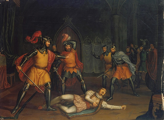 A Morte do Conde Andeiro (The Death of Count Andeiro). Dom João (later King Dom João I), Grand Master of the Order of Avis kills João Fernandes Andeiro, Count of Ourém. Painting in the Museu Nacional de Soares dos Reis, in the city of Porto, Portugal